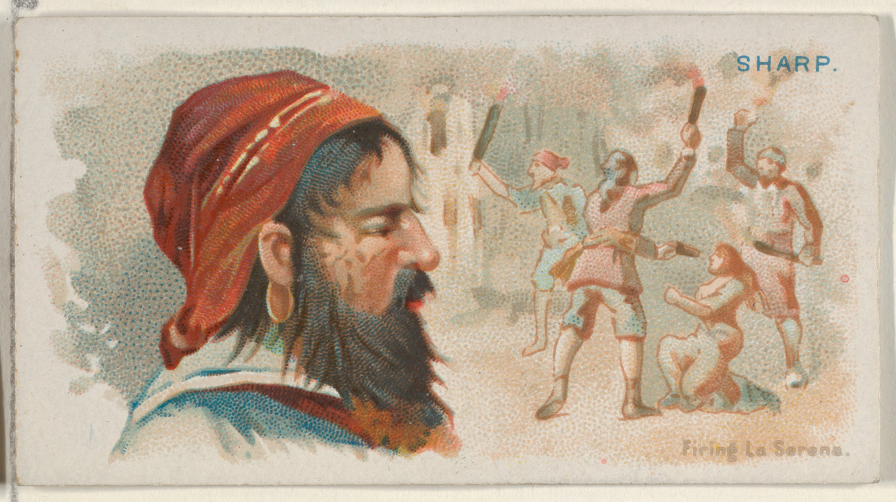 Print; Prints